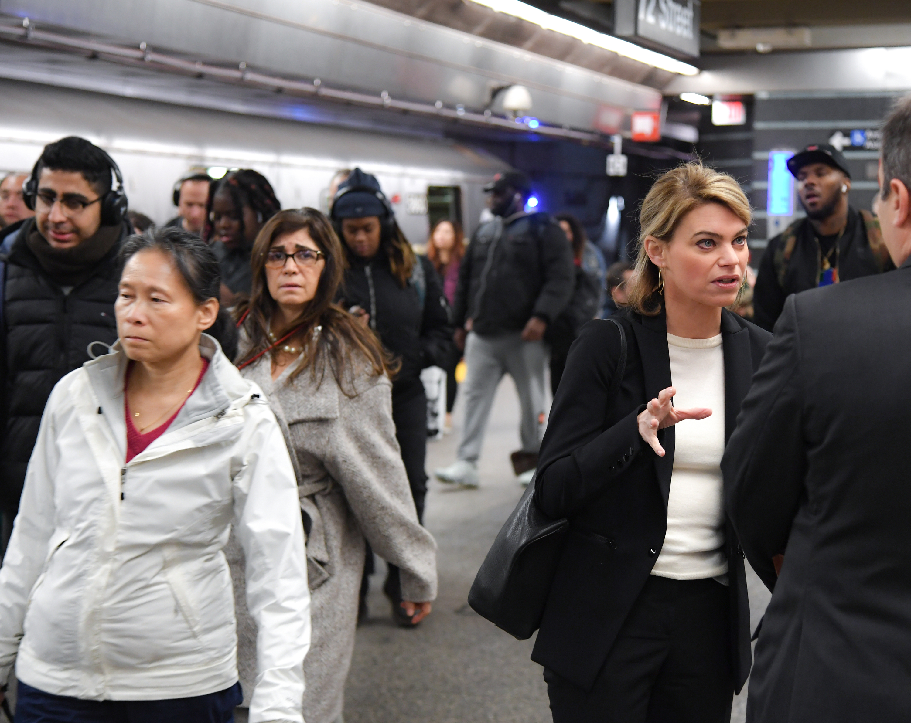 Interim MTA New York City Transit President Sarah Feinberg rides to Headquarters on Mon., March 9, 2020, her first official day on the job. (Marc A. Hermann / MTA New York City Transit)